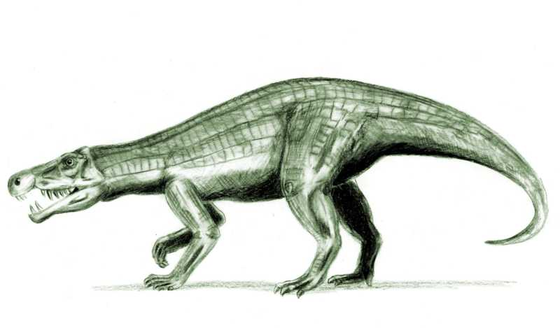 Venaticosuchus, pencil drawing, skull based from Bonaparte, 1971 [1] Author:User:ArthurWeasley